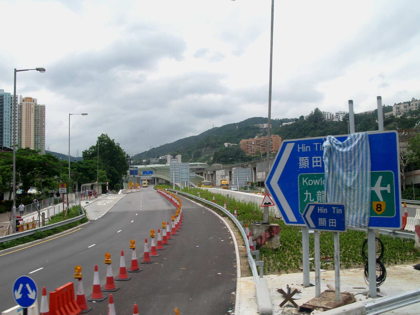 HK Route 8 Highwayin Tai Wai